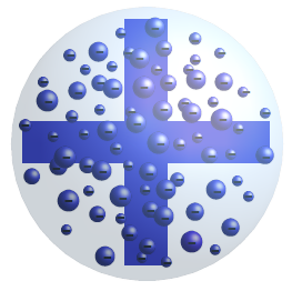 Atoms were initially thought to contain many hundreds or thousands of electrons as shown in this schematic representation of the plum pudding model